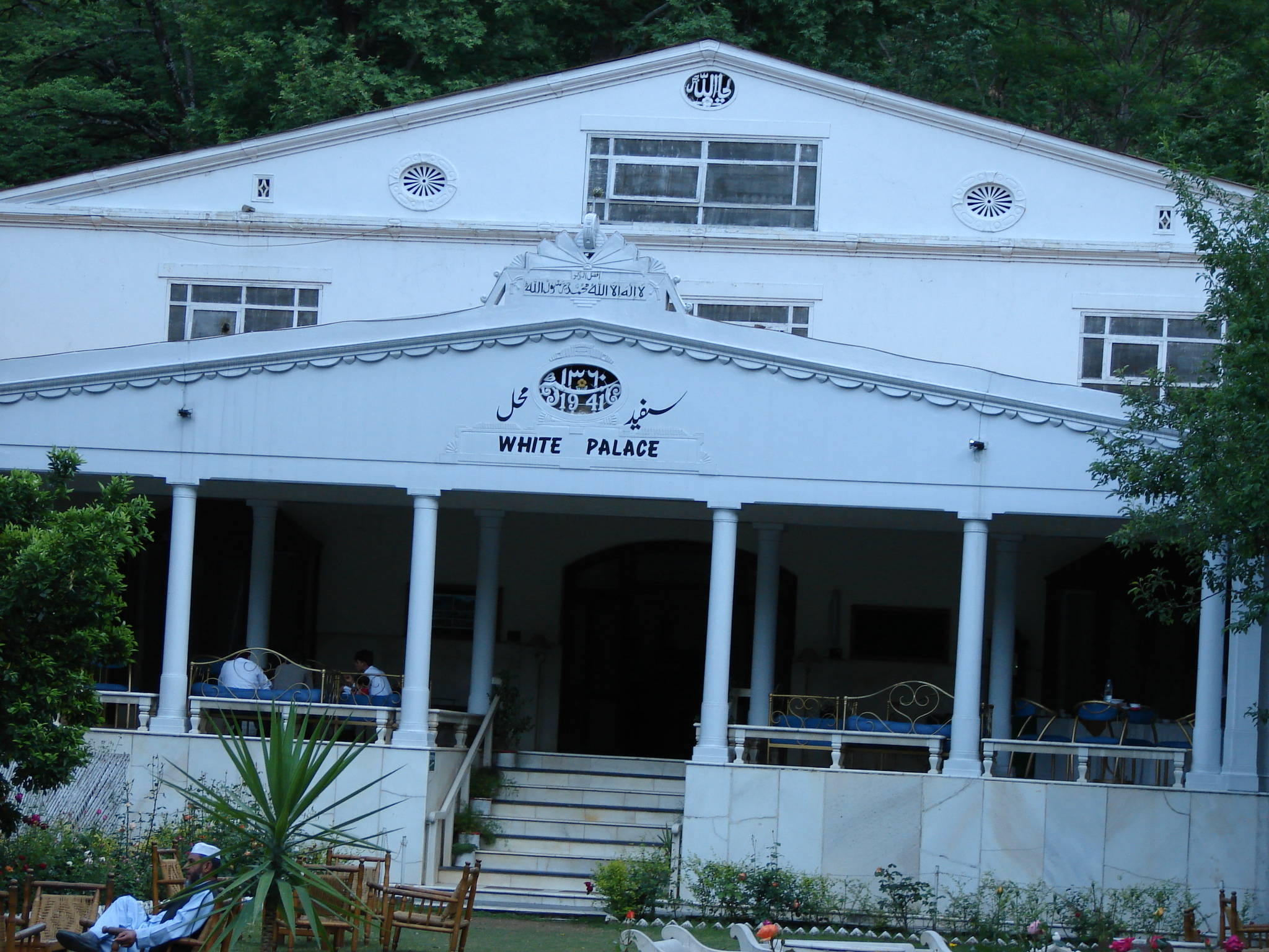 Marghazar, Swat Valley, Pakistan